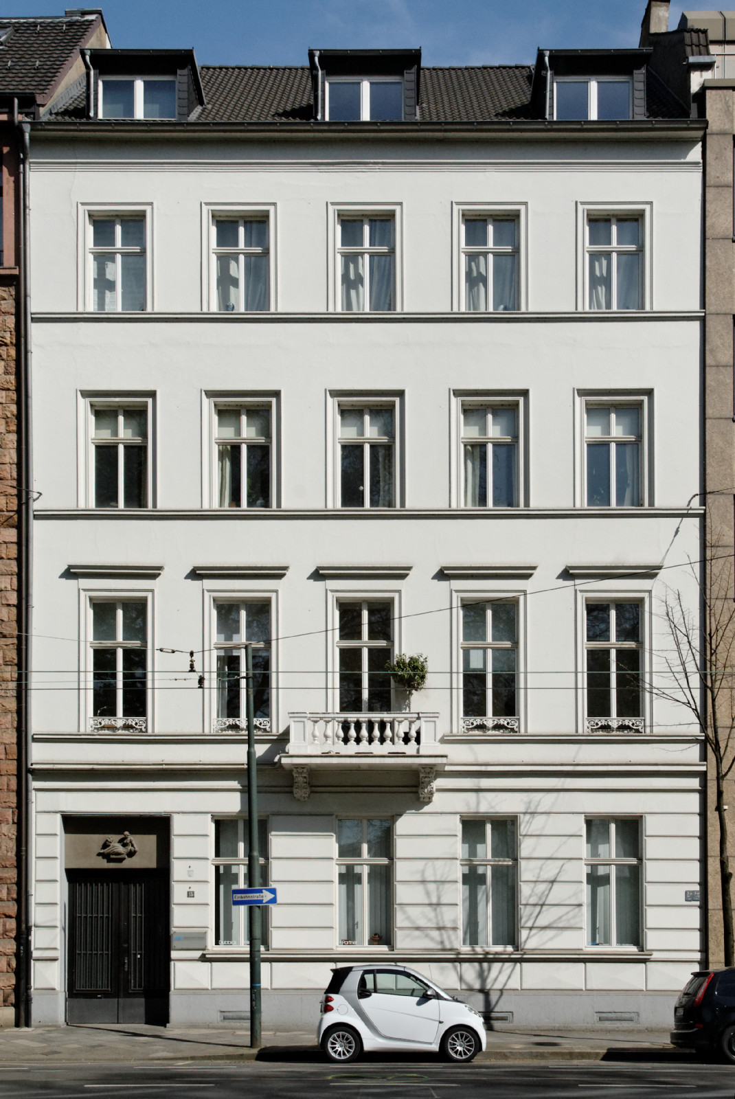 House Elisabethstraße 15 in Düsseldorf-Unterbilk, Germany